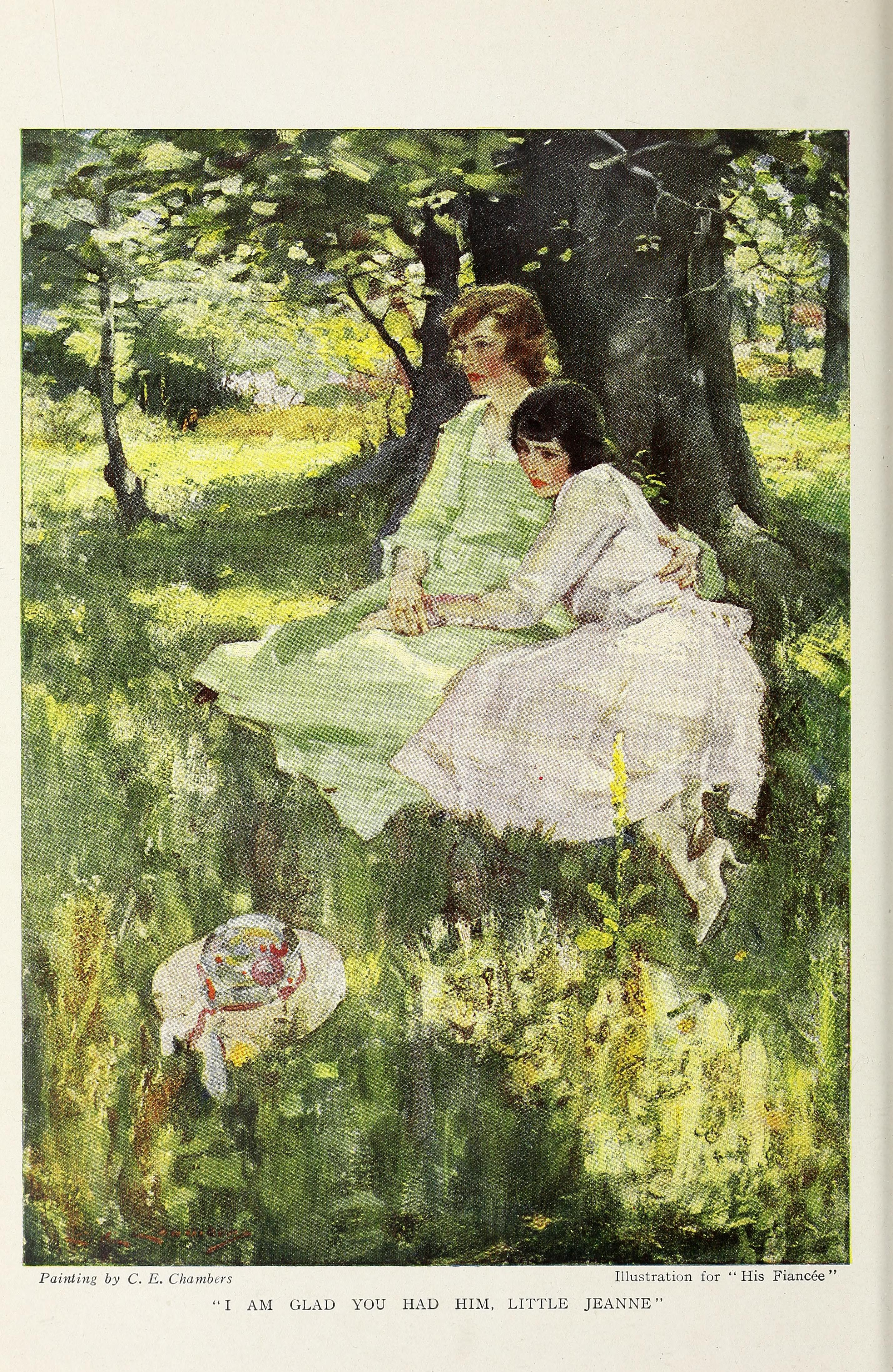 Title: Harper's New Monthly Magazine Volume 139 June to November 1919 Year: 1919 (1910s) Authors: various Subjects: Publisher: New York: Harper & Brothers Publishers Text Appearing Before Image: $2,756,-Bank- 778,000 United States bondsof Bonds anc^ certificates of indebted-ness, in addition to carryingloans on $1,106, 708,000 ofthe same security, a total of $3,863,-486,000. The report of the Comptrollerof the Currency of March 4th last dis-closed holdings by the National banksof the country of $3,681,000,000 UnitedStates bonds and certificates of indebt-edness. In all likelihood, if the reportsof State banks were available, a similarcondition would be revealed, indicatingthat the financial institutions have ob-ligated themselves enormously in buyingand loaning upon the Government secu-rities. IT always surprises a casual observer,who gives little attention ordinarilyto financial or economic problems, tohear that there can be any serious ob-jections to the ownership by the banksand trust companies of large amounts ofsecurities of such high character as Uni-ted States bonds, but such is the fact.In the first instance, the proper func-(Continued on thirty-fifth page following) Text Appearing After Image: Harpers Magazine Vol. CXXXIX JULY, 1919 No. DCCCXXX